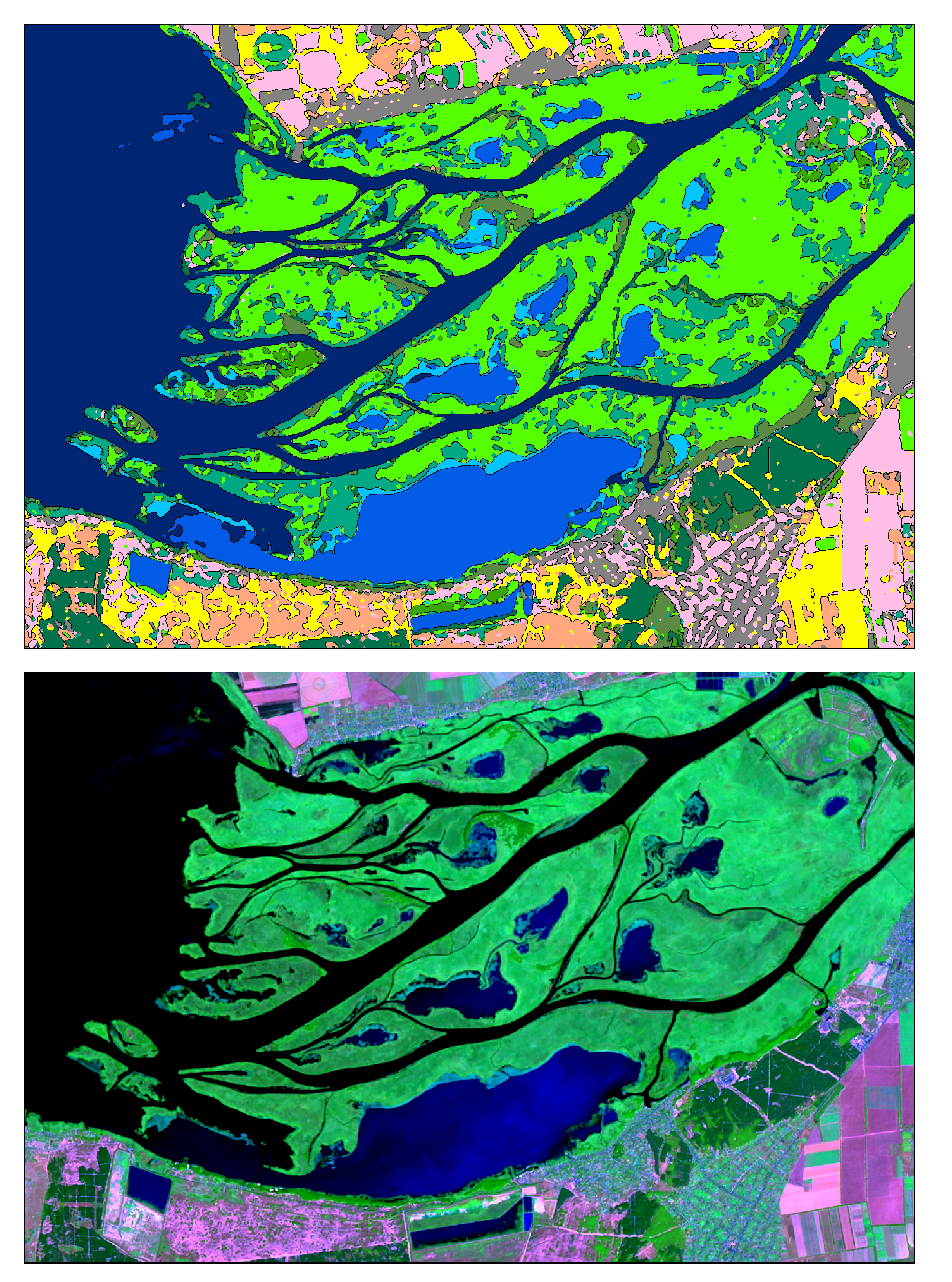 It is satellite image of Dnipro river estuary, captured 8-Aug 2015 by Landsat8 (OLI) under USGS/NASA Landsat Program and thematic map for the same territory The imagery (bottom) is created as False Color band Composite where are • R – Short-Wave Infrared 1 (SWIR-1) Band (2.11 - 2.29 µm) • G – Near Infrared (NIR) Band (0.85-0.88 µm) • B – Red Band (0.64 - 0.67 µm) Thematic map (upper picture) is the result of Artificial neural network (ANN) classifier work. Sattelite image’s pixels were combined into classes with same spectral characteristics. Classes are represented by «water bodies», «crops», «open lands» and «deciduous trees», «wetland» etc.